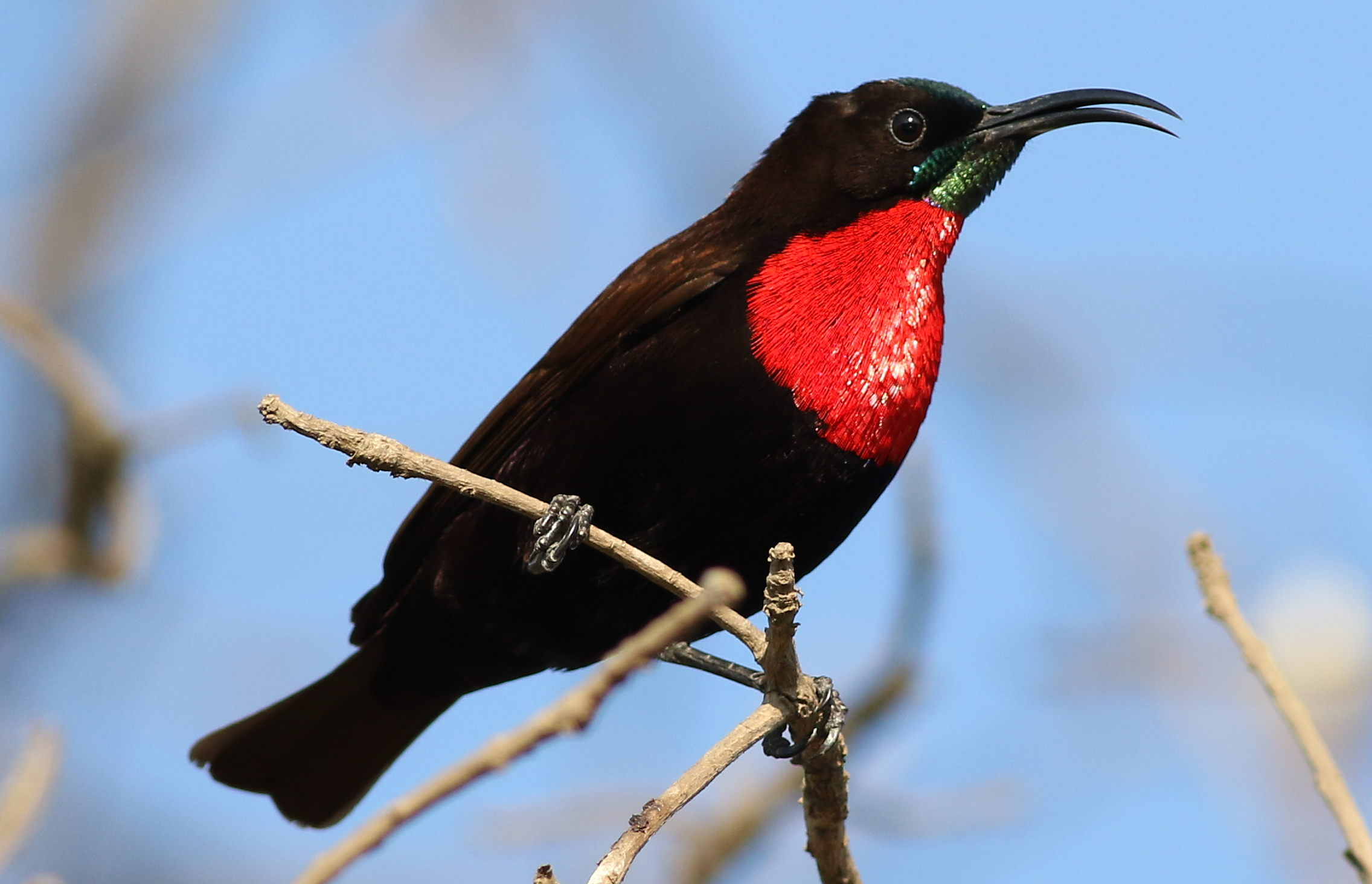 Scarlet-chested sunbird, Chalcomitra senegalensis, at Lake Chivero, Harare, Zimbabwe - male